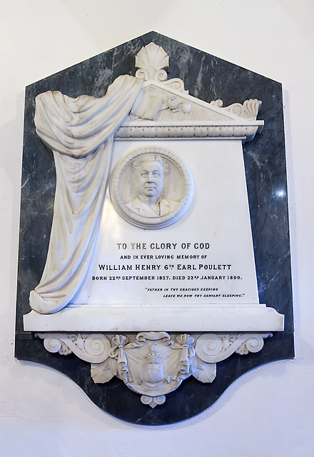 Monument to William, 6th Earl Poulett in St George's parish church, Hinton St George, Somerset